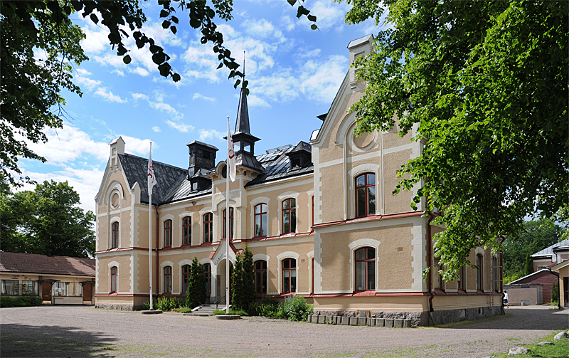 Nyköping Folk high school